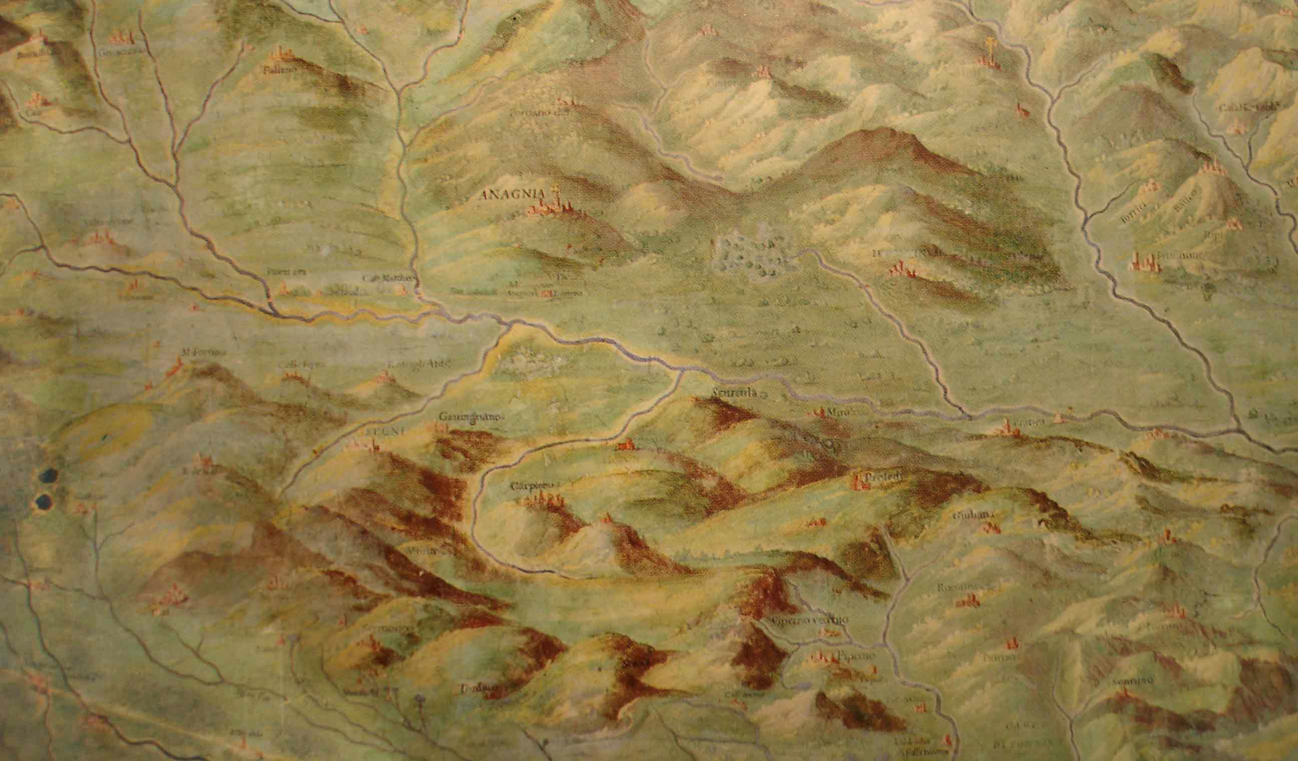 Map of Latium & Sabina in Vatican City.